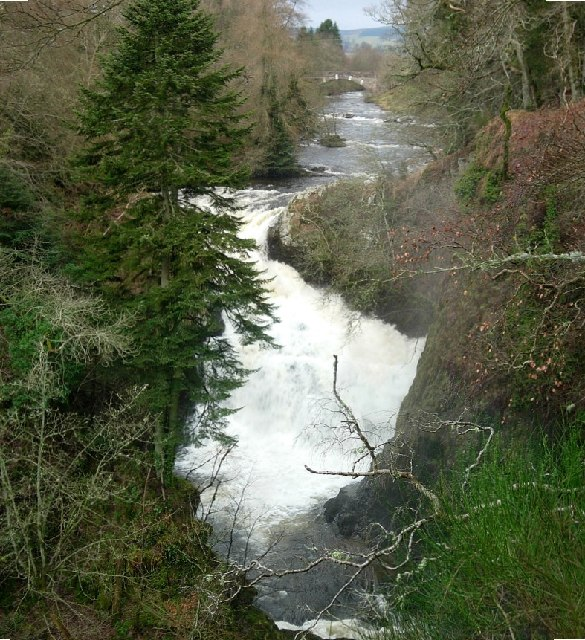 Reekie Linn. Reekie Linn ('smoking pool') so called because of the clouds of spray which rise above the plunge pool when the R. Isla is in spate, is a waterfall formed on the Highland Boundary fault where hard metamorphic rocks to the north give way to the softer sedimentary rocks of Strathmore. This view is taken looking upriver towards the Bridge of Craigisla.